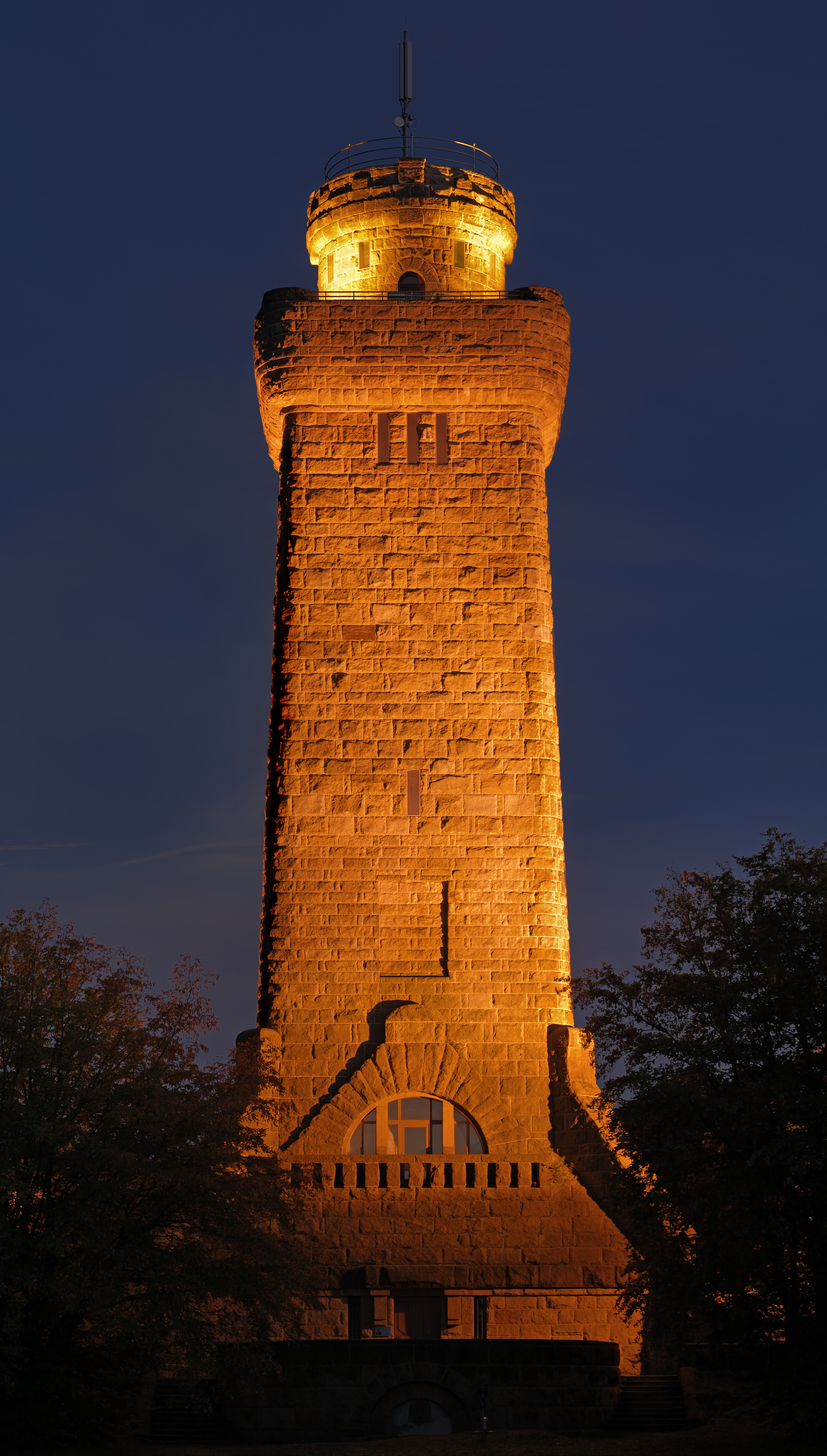 This image shows the Bismarck tower in Glauchau (Germany) about 45 minutes after sunset. It has been stitched together using three images.